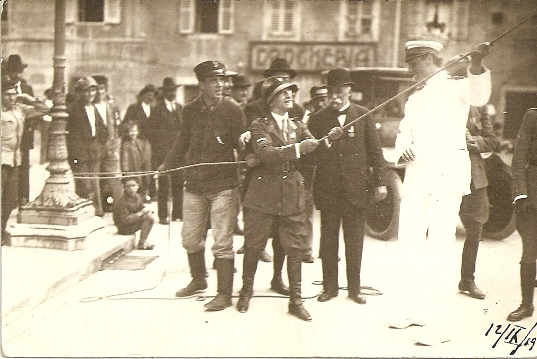 Fiume (Rijeka), D'Annunzio with the Italian flag next to the engineer Carlo Alessandro Conighi, 1919-09-12